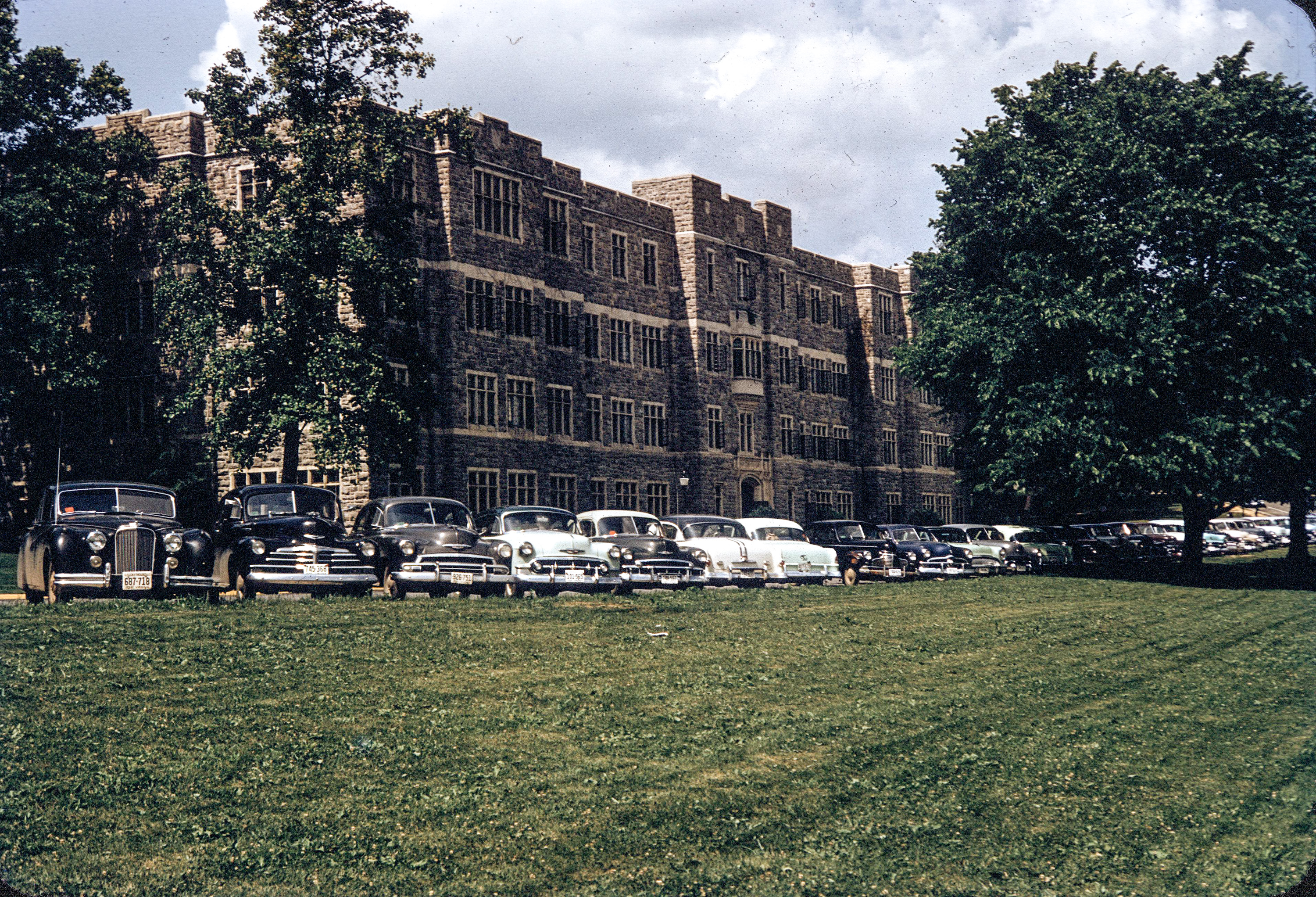 Patton Hall at Virginia Tech, photo taken probably 1952. A couple of Chevrolet Deluxe automobiles are parked in the lot. Photograph by my late father, Alfred Zirkel.